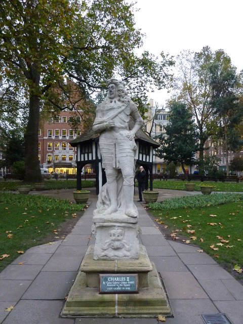 The statue, by Danish sculptor Caius Gabriel Cibber (1681) was removed in the 19th century, spent some time in the garden of W.S.Gilbert and was restored and replaced in the square in 1938, according to the wishes of Lady Gilbert in her will.